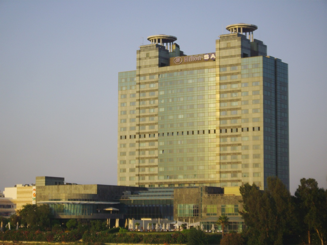 Adana Center for Arts and Culture - rear view